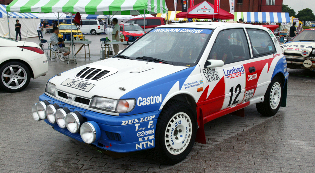 Nissan Pulsar Gr.A at The Spirit of Rally 2005.